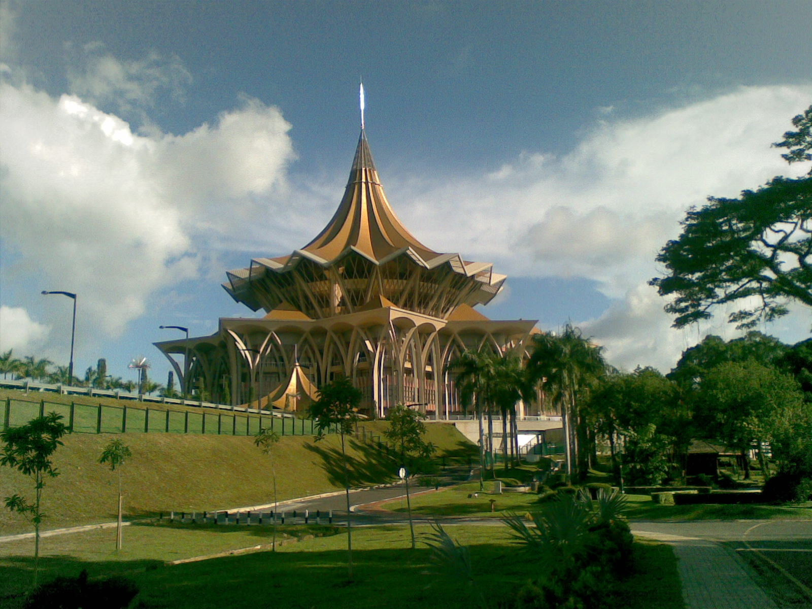 The side view of the new Sarawak state assembly building in the evening